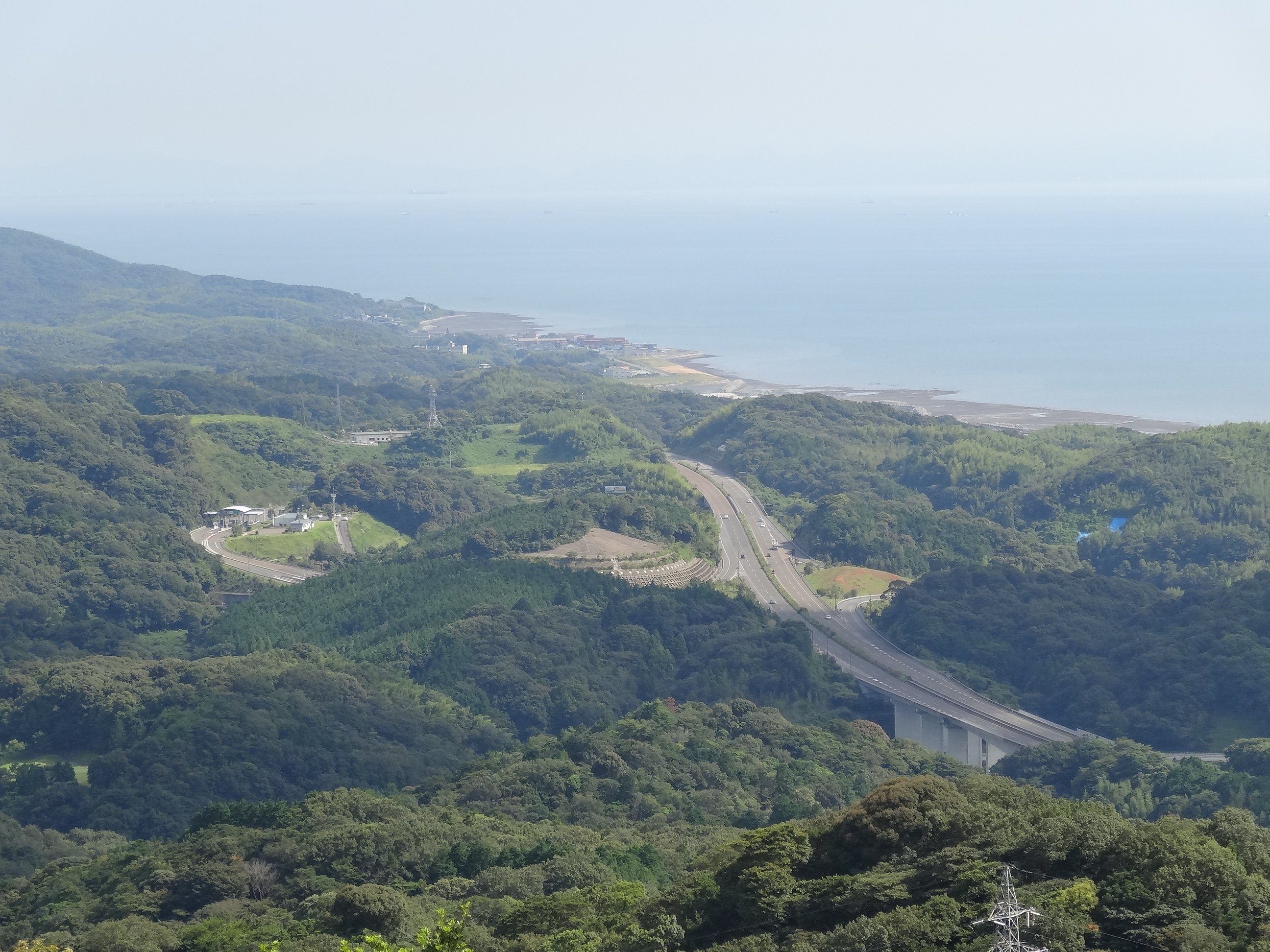 The Habu Interchange of Sanyo Expressway in Sanyo-Onoda City, Yamaguchi Prefecture, Japan.